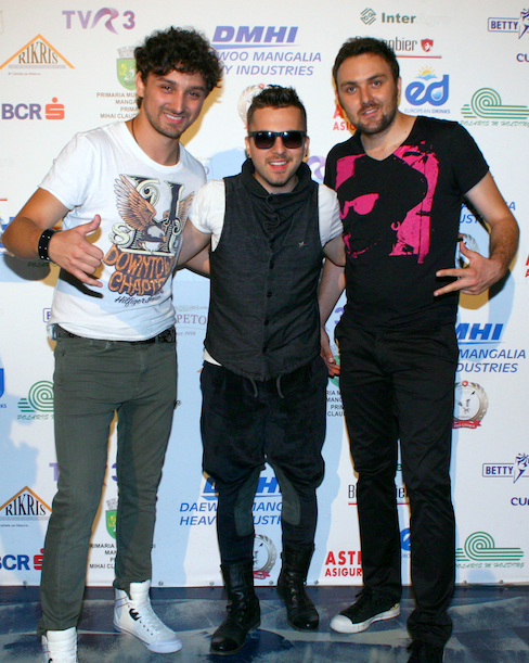 This picture was taken at the Mangalia Festival 2011.